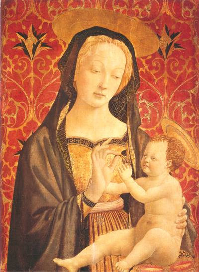 Bianca Maria Visconti (en:1425-en:1468), daughter of Filippo Maria Visconti, wife of Francesco I Sforza Source: [1]